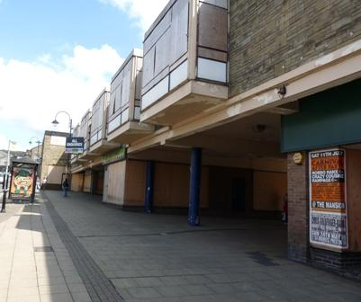 Boarded up windows